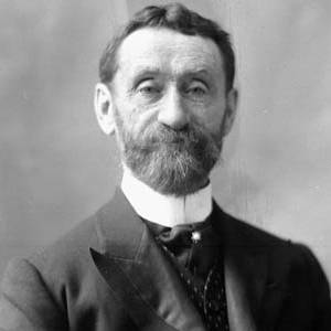 McSweeney, Peter Hon. (Senator) April 11, 1842 - 1921.